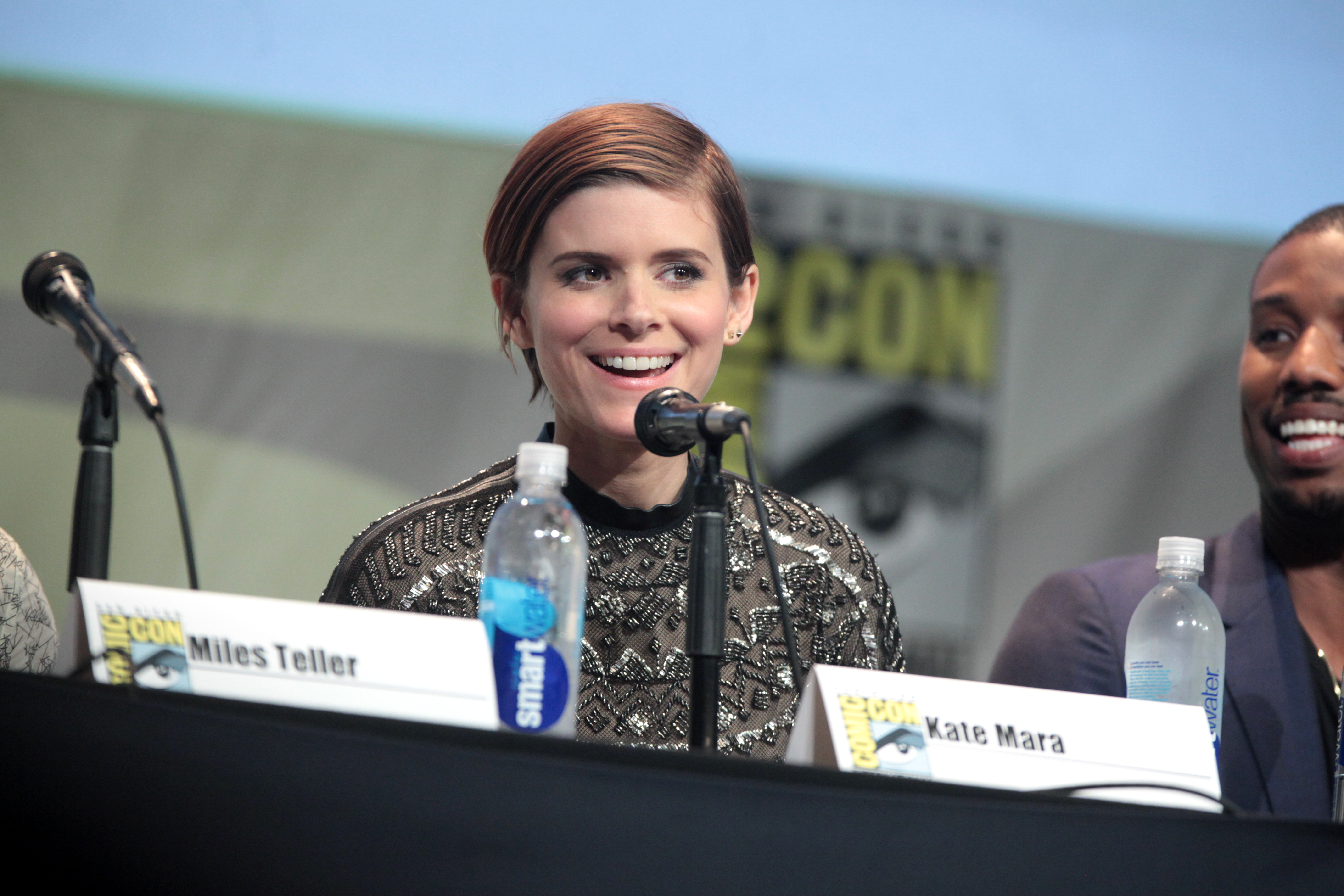 Kate Mara speaking at the 2015 San Diego Comic Con International, for "Fantastic Four", at the San Diego Convention Center in San Diego, California.